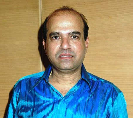 Indian singer Suresh Wadkar at the launch of Sonu Nigam's album Classically Mild